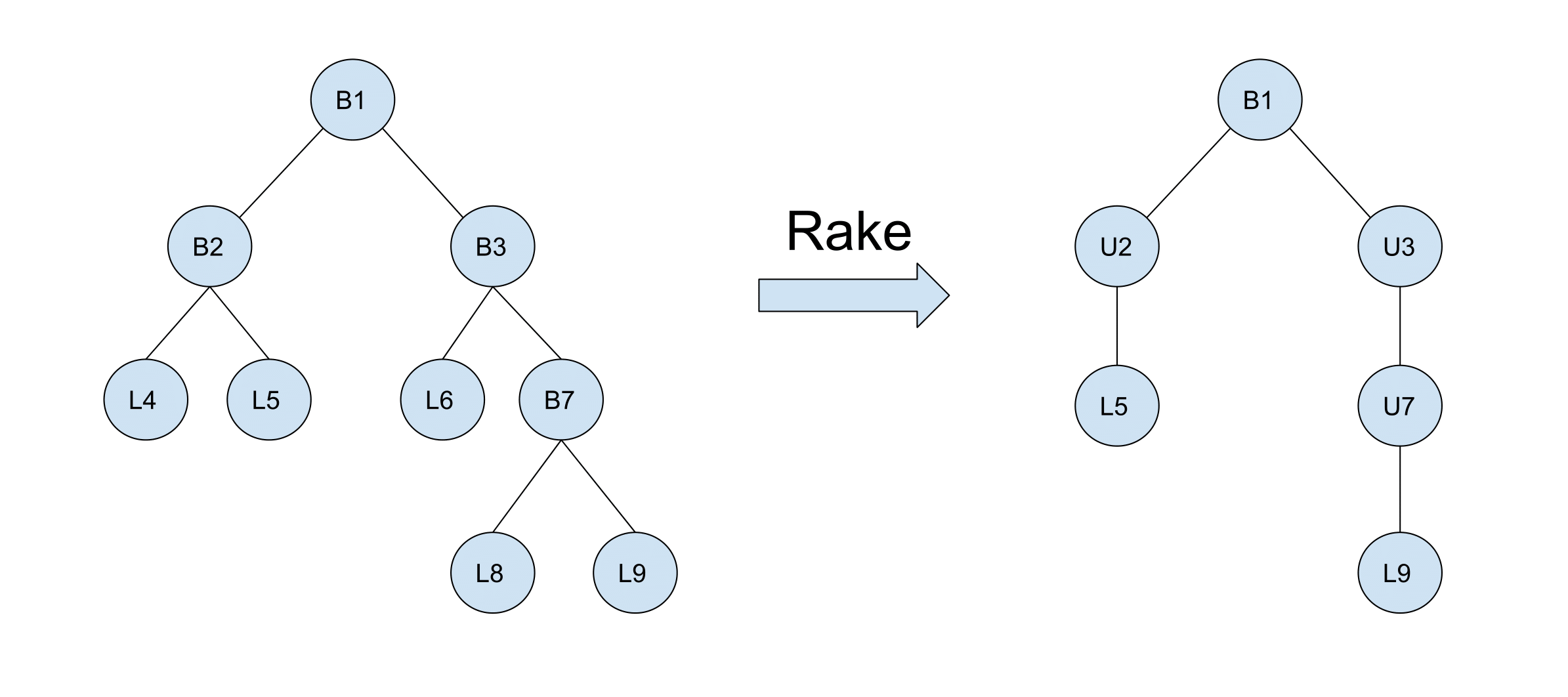 rake